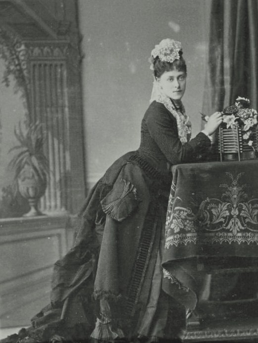 Madeleine Guillemin